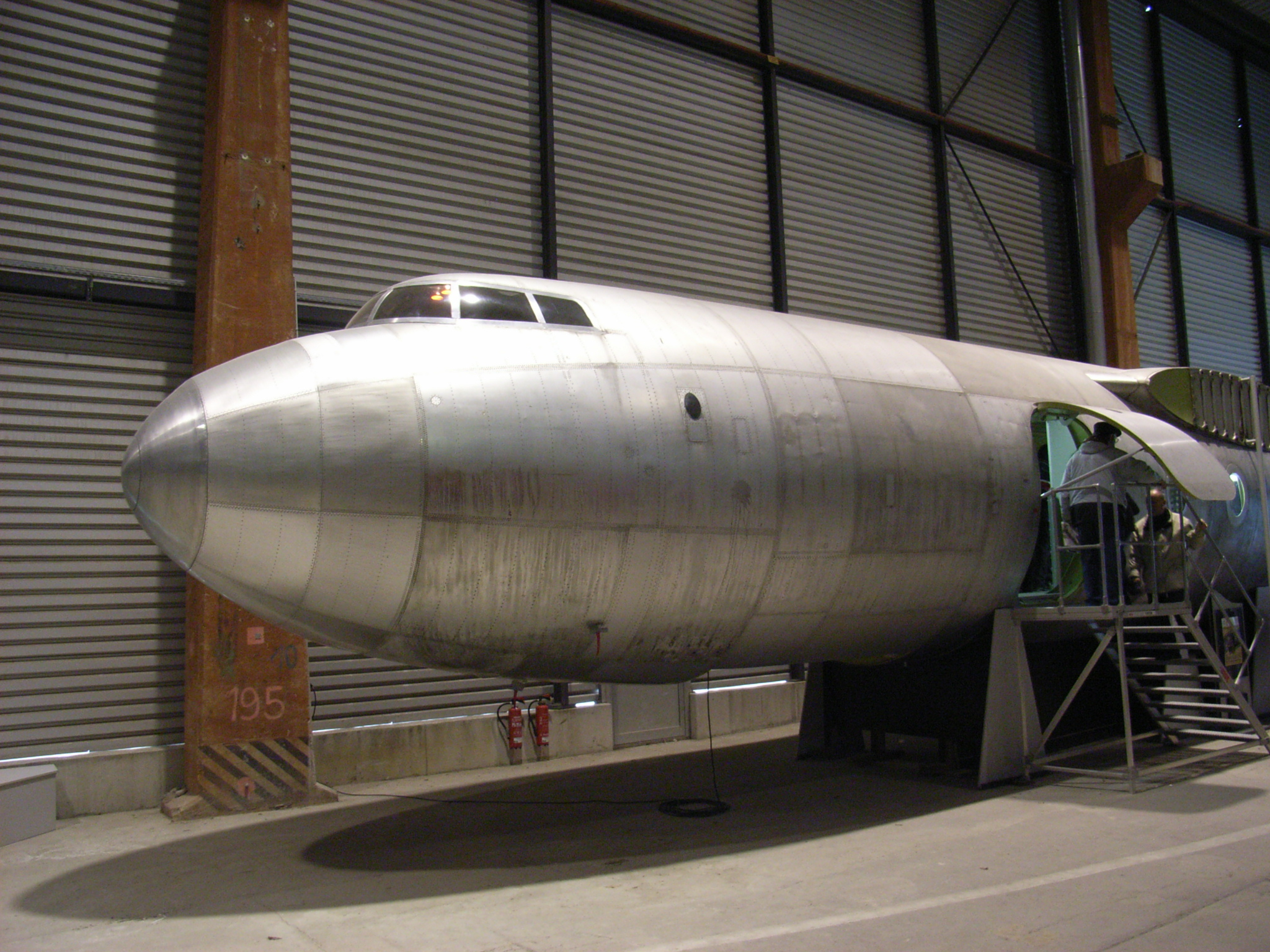 Cockpit 152